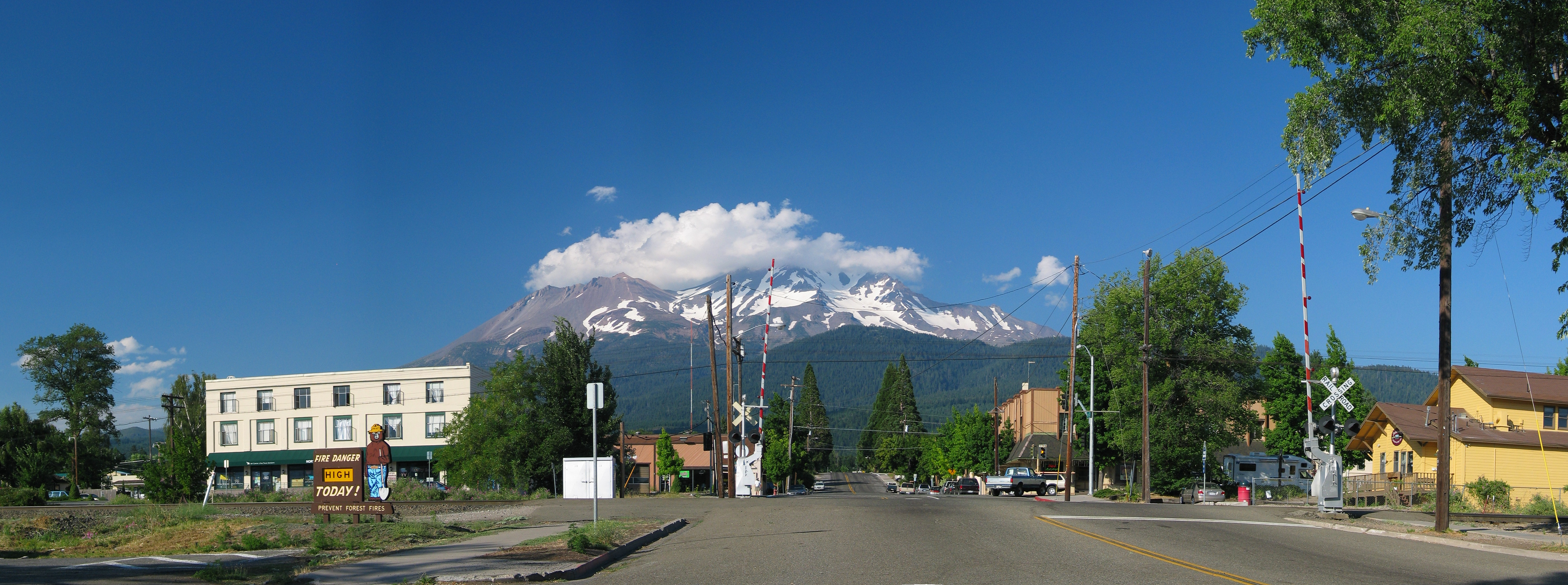 Panoramic of the City of Mount Shasta, with Mount Shasta in the backround, California, U.S.